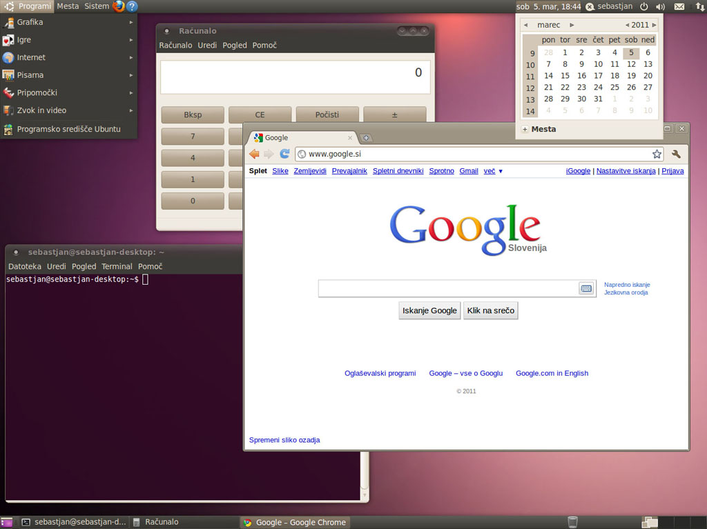 Screenshot of Ubuntu Linux 10.04 LTS Slovenian GUI